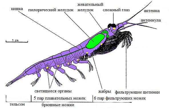 Anatomy of antarctic krill